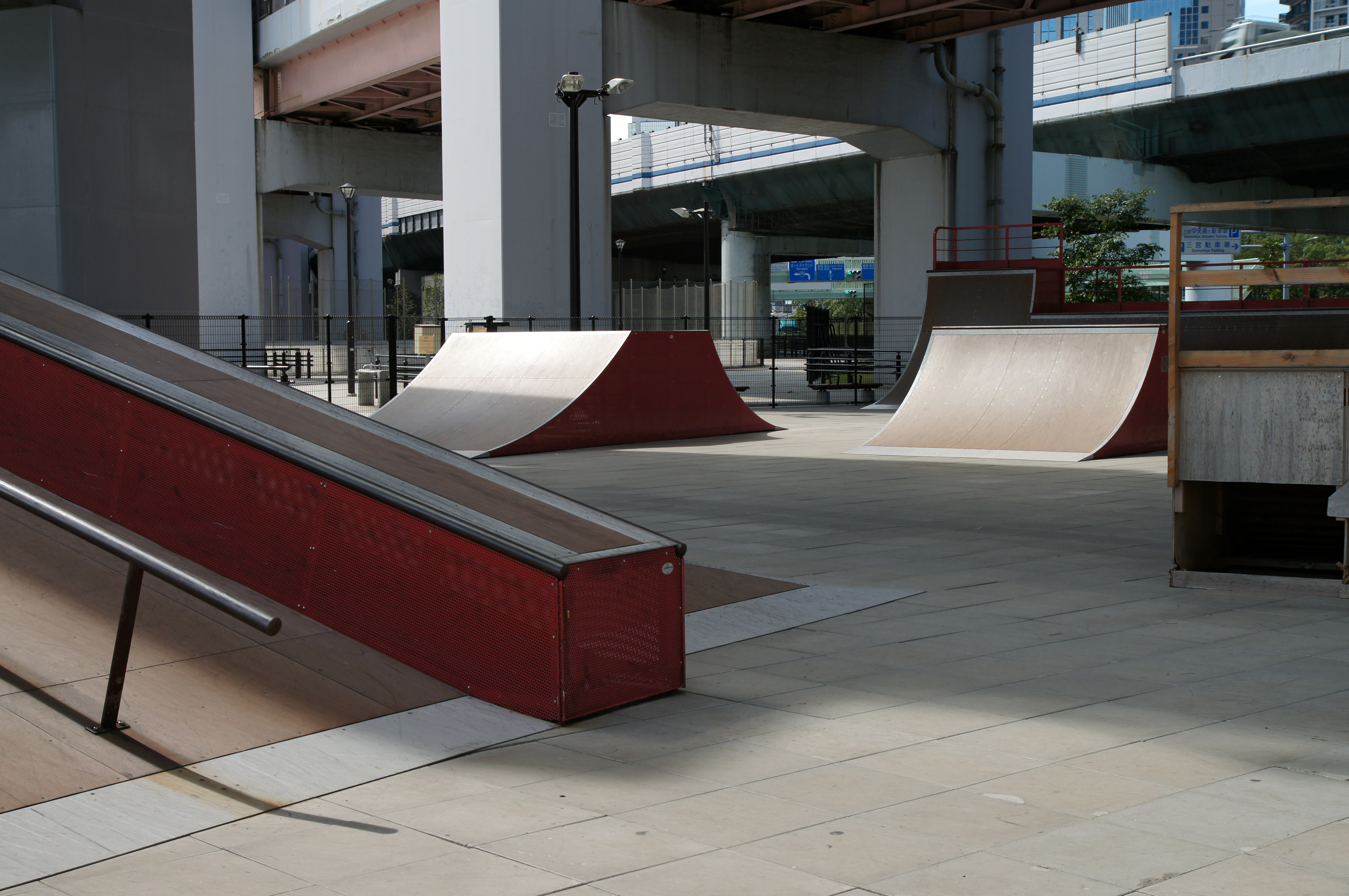 Minato-no-mori Park in Kobe, Hyogo prefecture, Japan